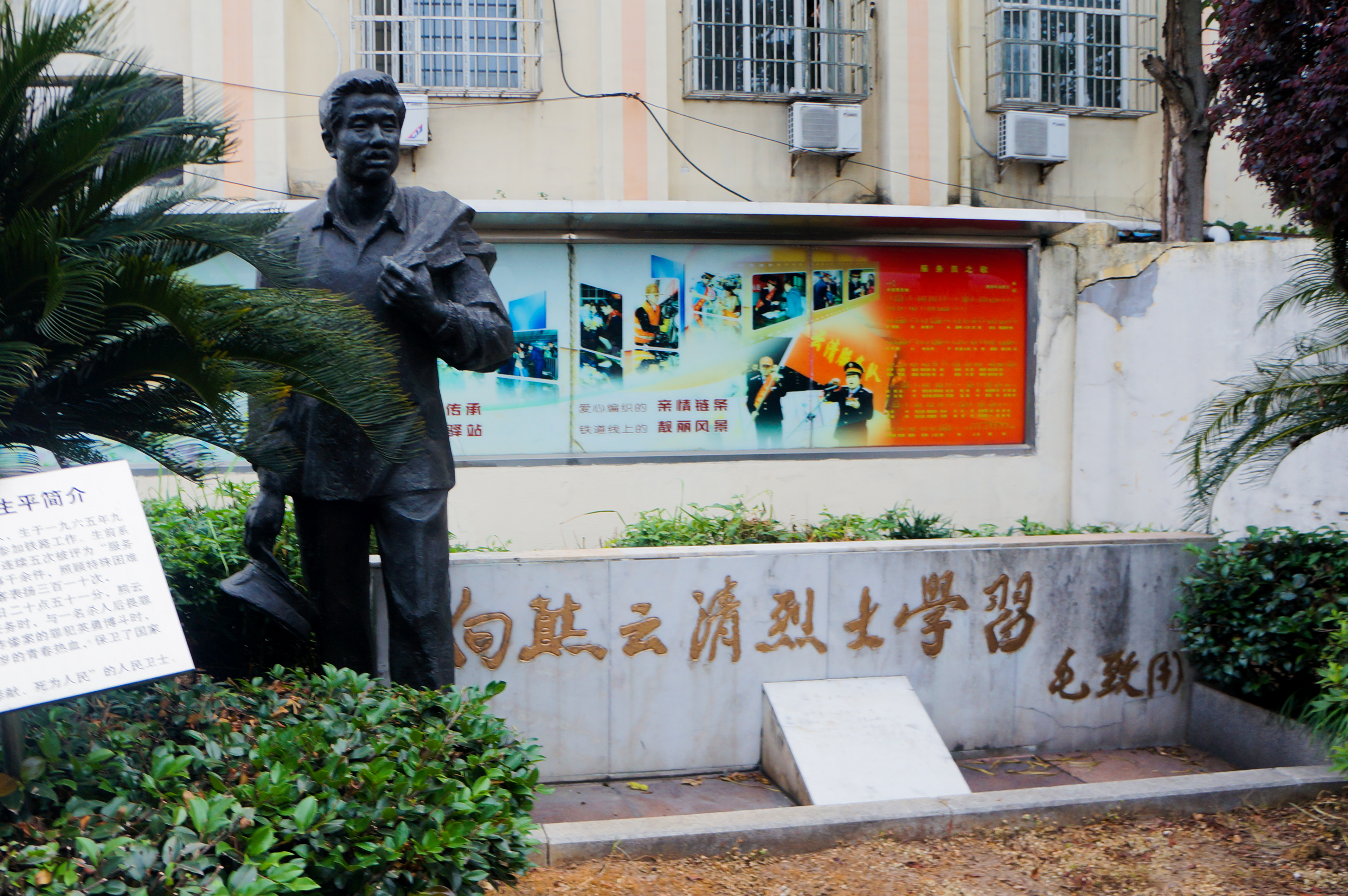 201705 Statue of Xiong Yunqing on Platform 1 of Yingtan Station